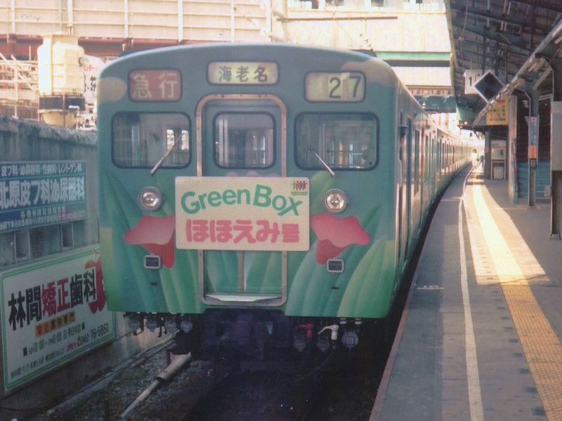 Sagami Railway(Sotetsu), EMU Type 6000 "Hohoemi Train" At Yamato Sta.